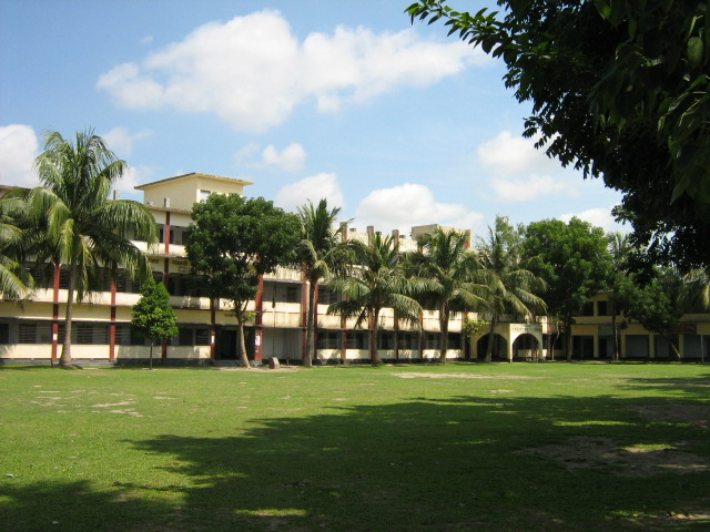 College View